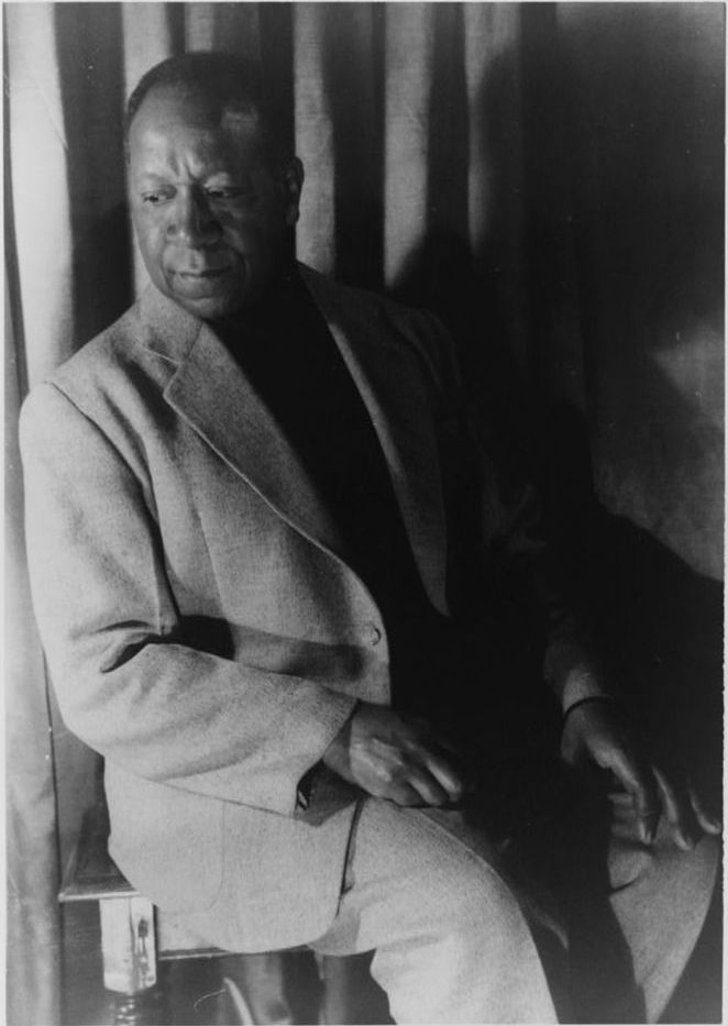 Portrait of American artist Beauford Delaney (1901–1979) by Carl Van Vechten. Portrait of Beauford Delaney - 1953 March 18.